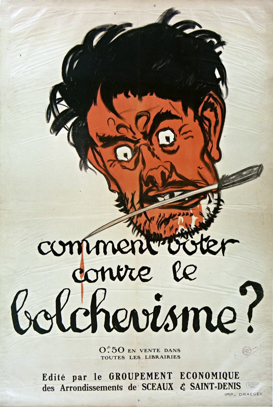 Affiche lithographiée. Imprimerie Draeger.